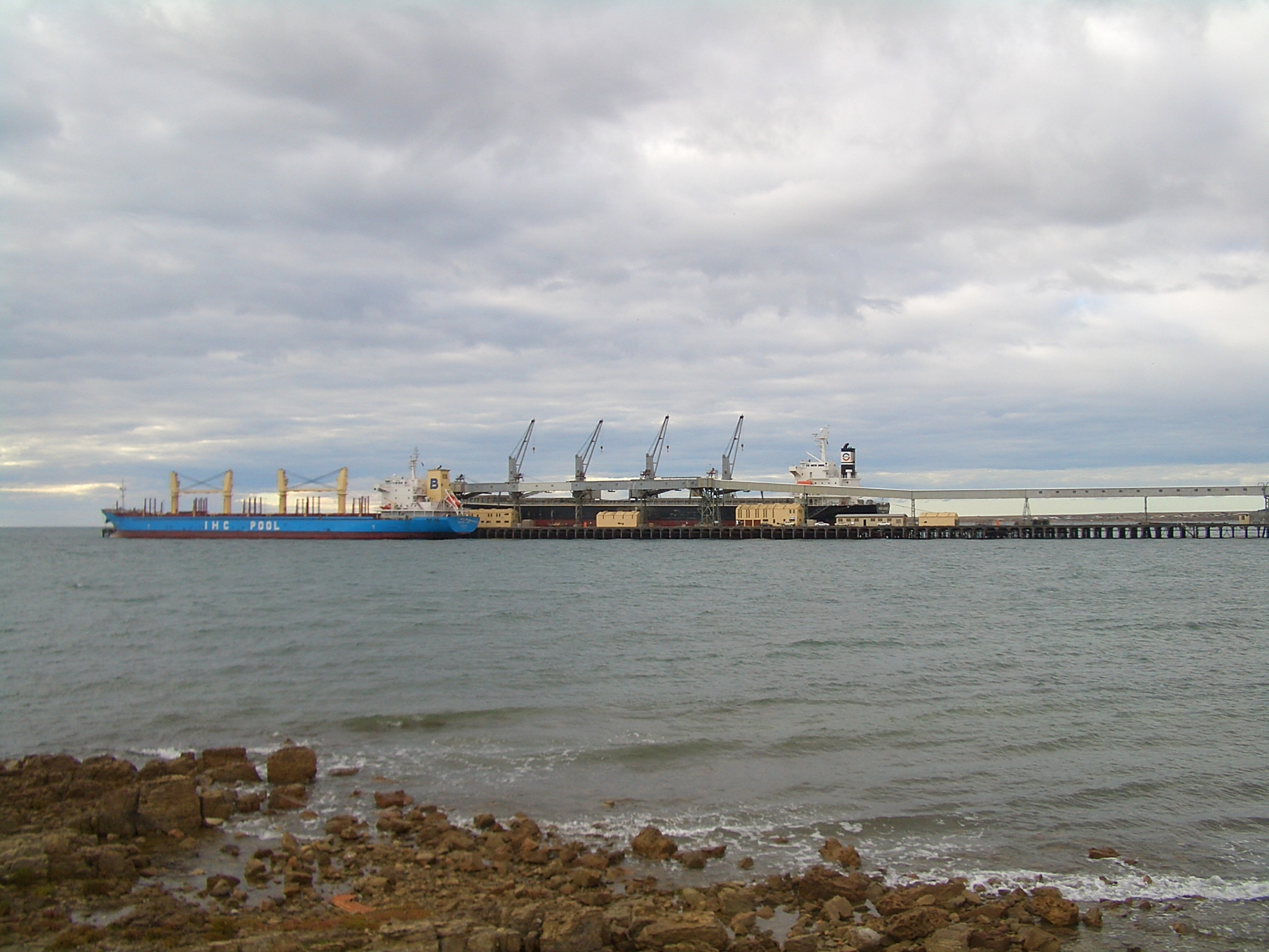 A grain pipeline runs from the grain elevator to the ship loading pier in Wallaroo, Yorke Peninsula, South Australia